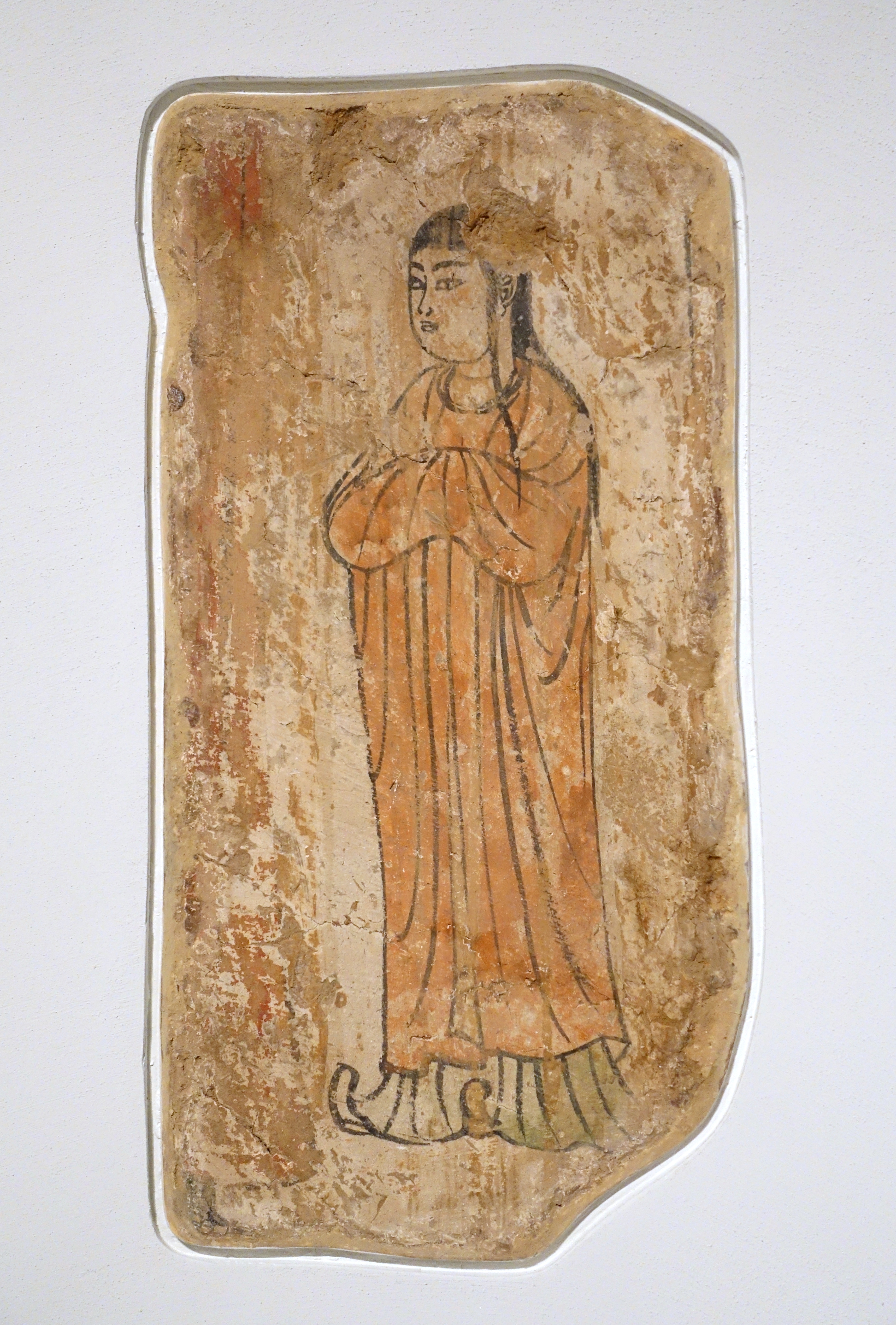 Exhibit in the Ethnological Museum, Berlin, Germany. From the Chinese Tang period of Qocho (Gaochang), as the Uyghur Kingdom of Khocho did not exist until 840 AD.